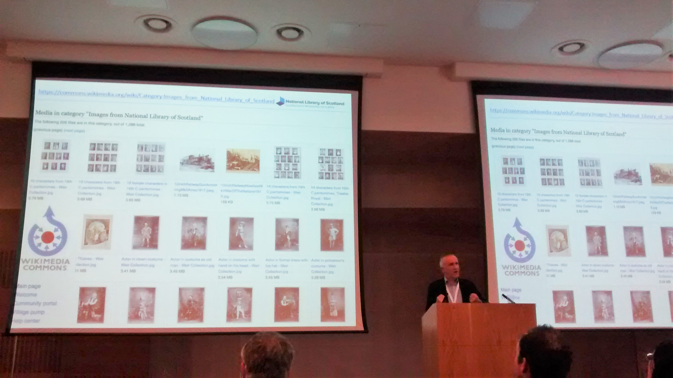 The 7th Open Educational Resources Conference, OER16: Open Culture, held on the 19th-20th April 2016 at the University of Edinburgh.